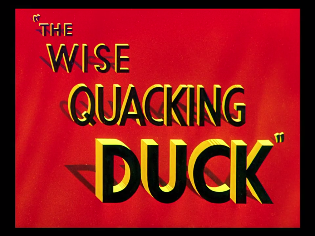 Title card from the cartoon The Wise Quacking Duck (1943)